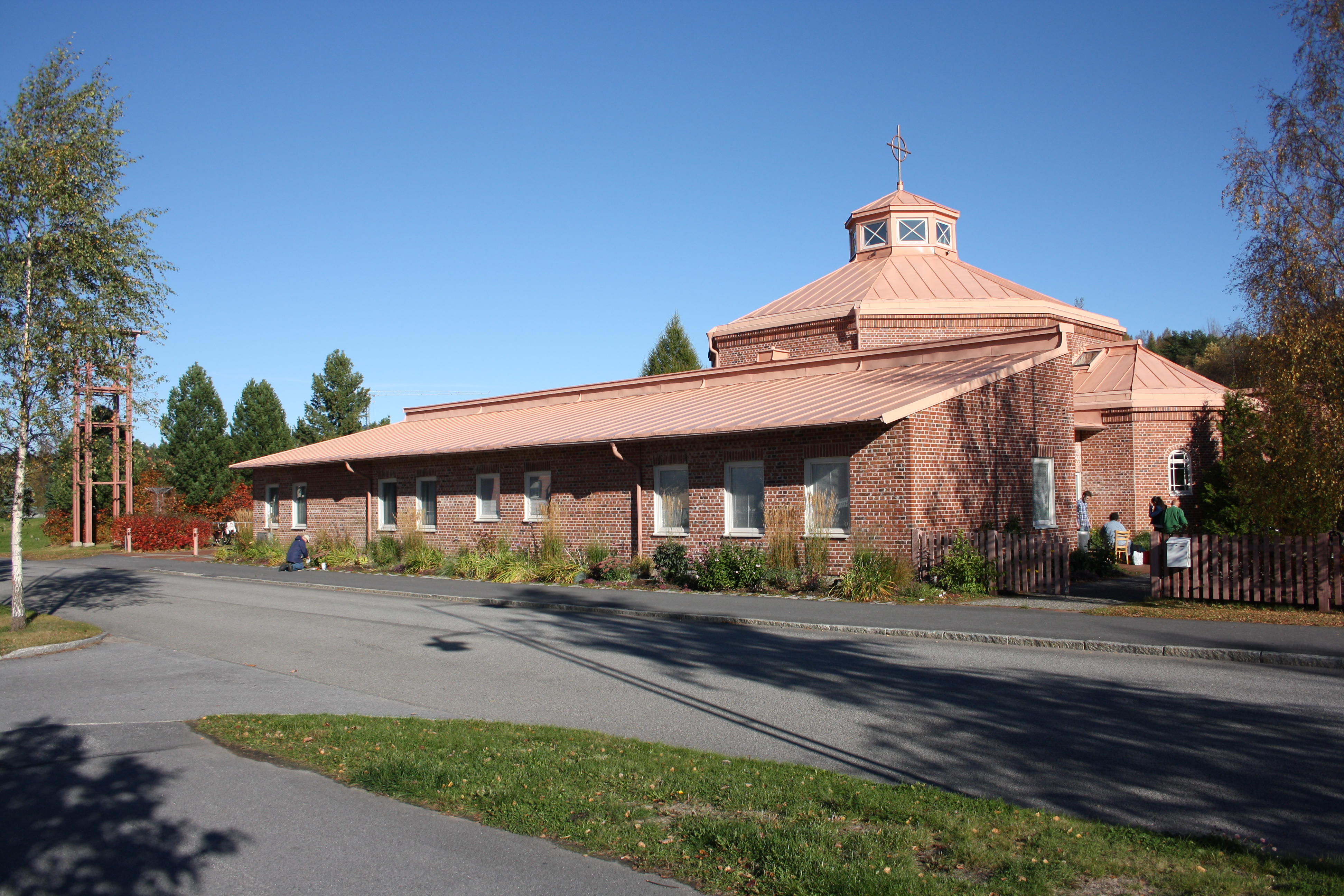 The Catholic Church in Umeå (Mother of Christ Catholic parish church)